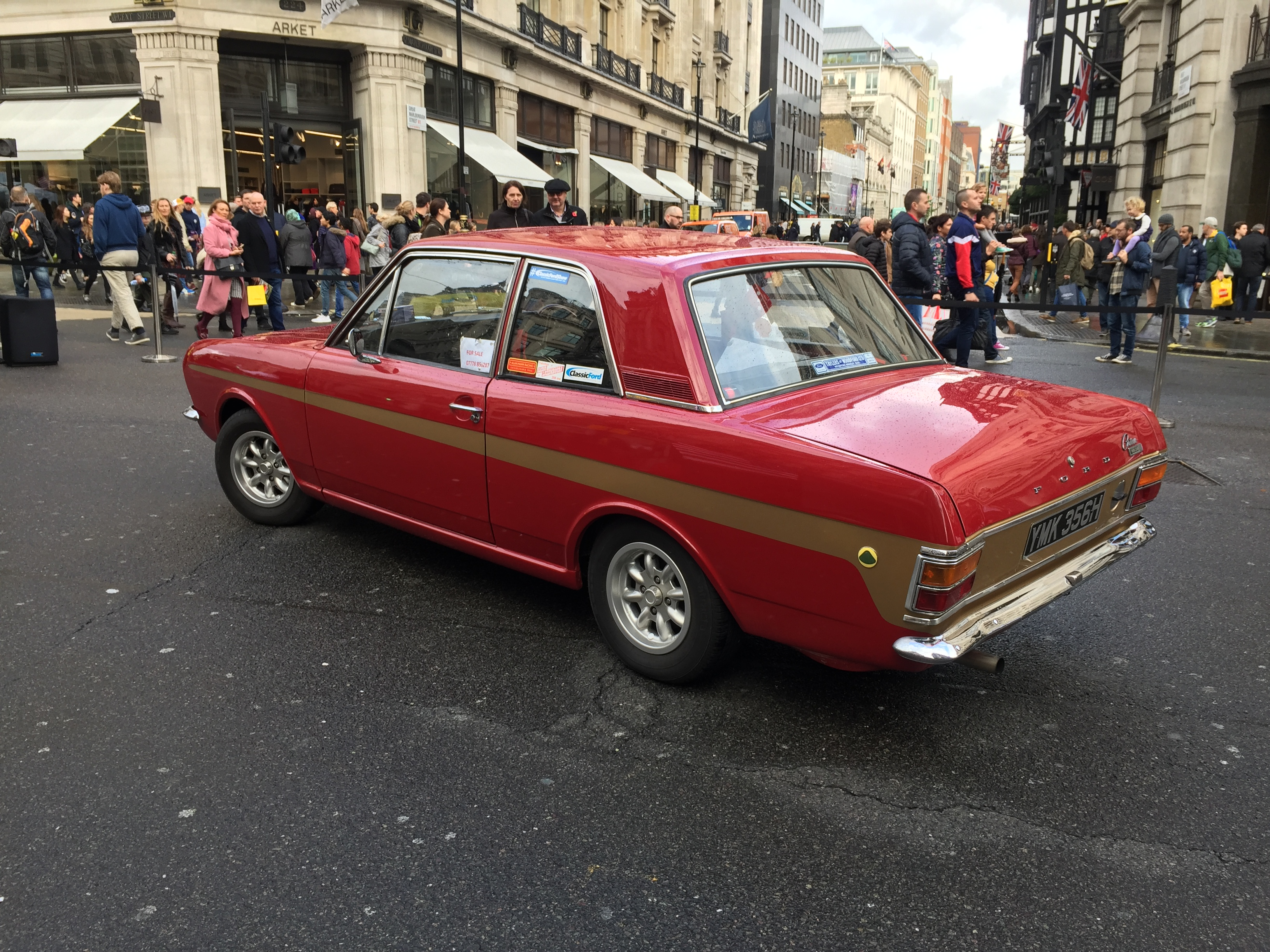 Ford Lotus Cortina MkII YMK356H